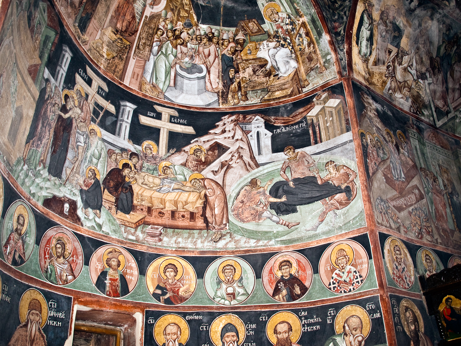 Deposition of Christ Mural from Poganovo Monastery, Serbia